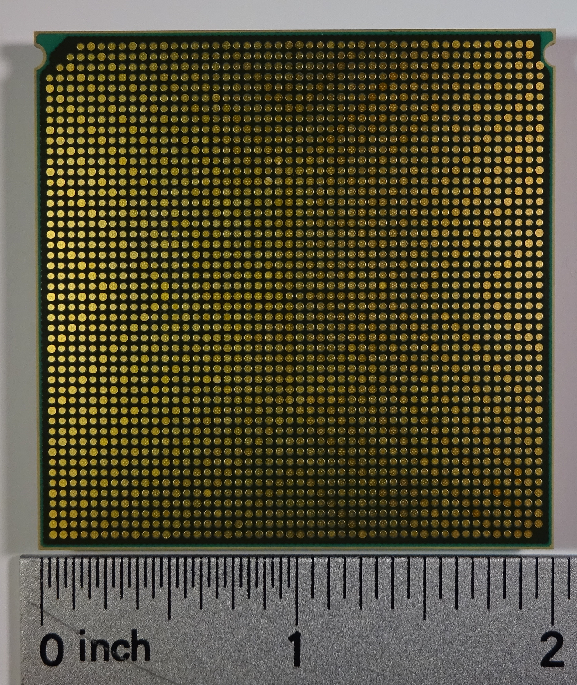 IBM Power6 CPU bottom